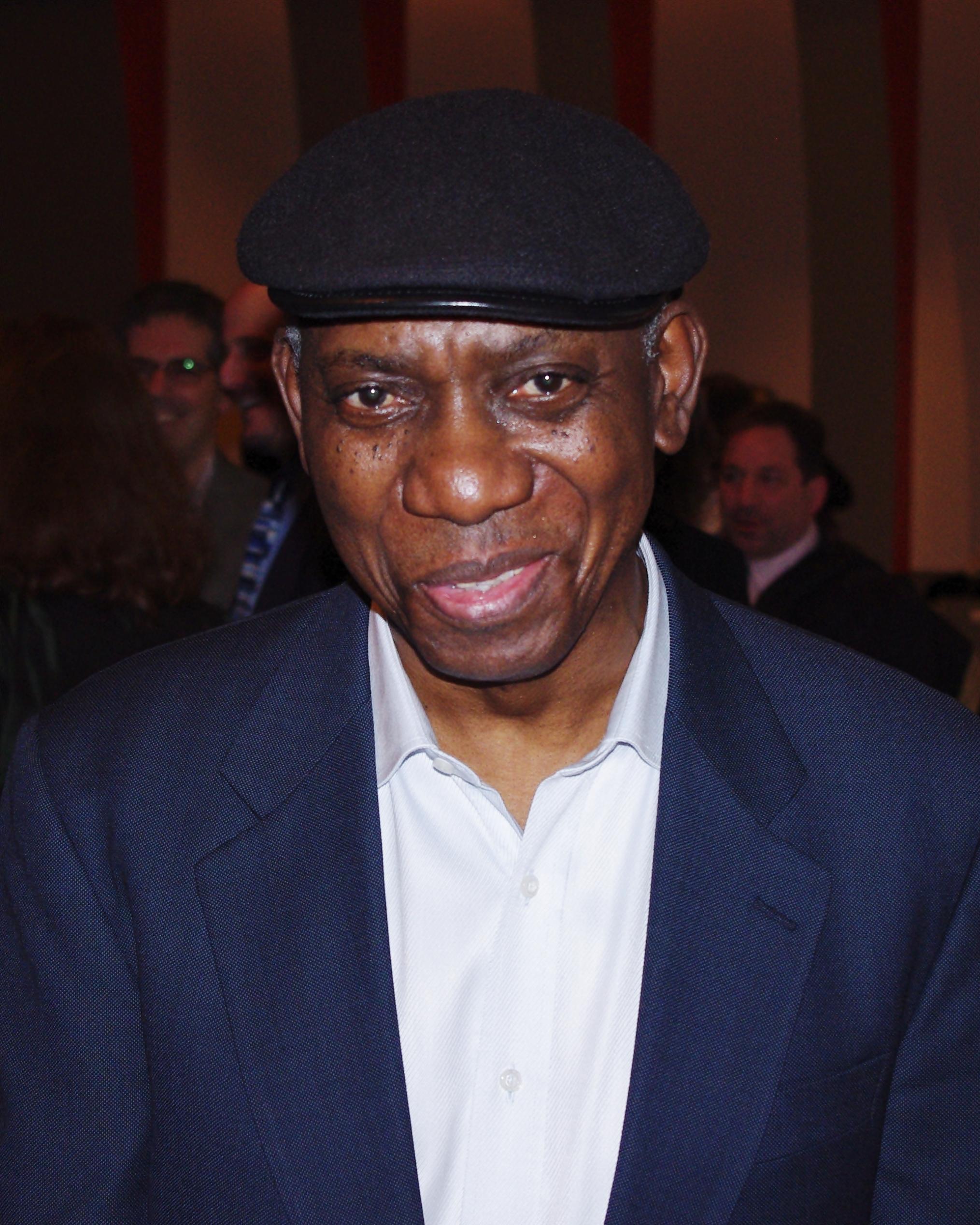 Poet Yusef Komunyakaa at the National Book Critics Circle Awards for the 2011 publishing year.